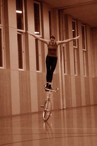 Stand on saddle of artistic bike.